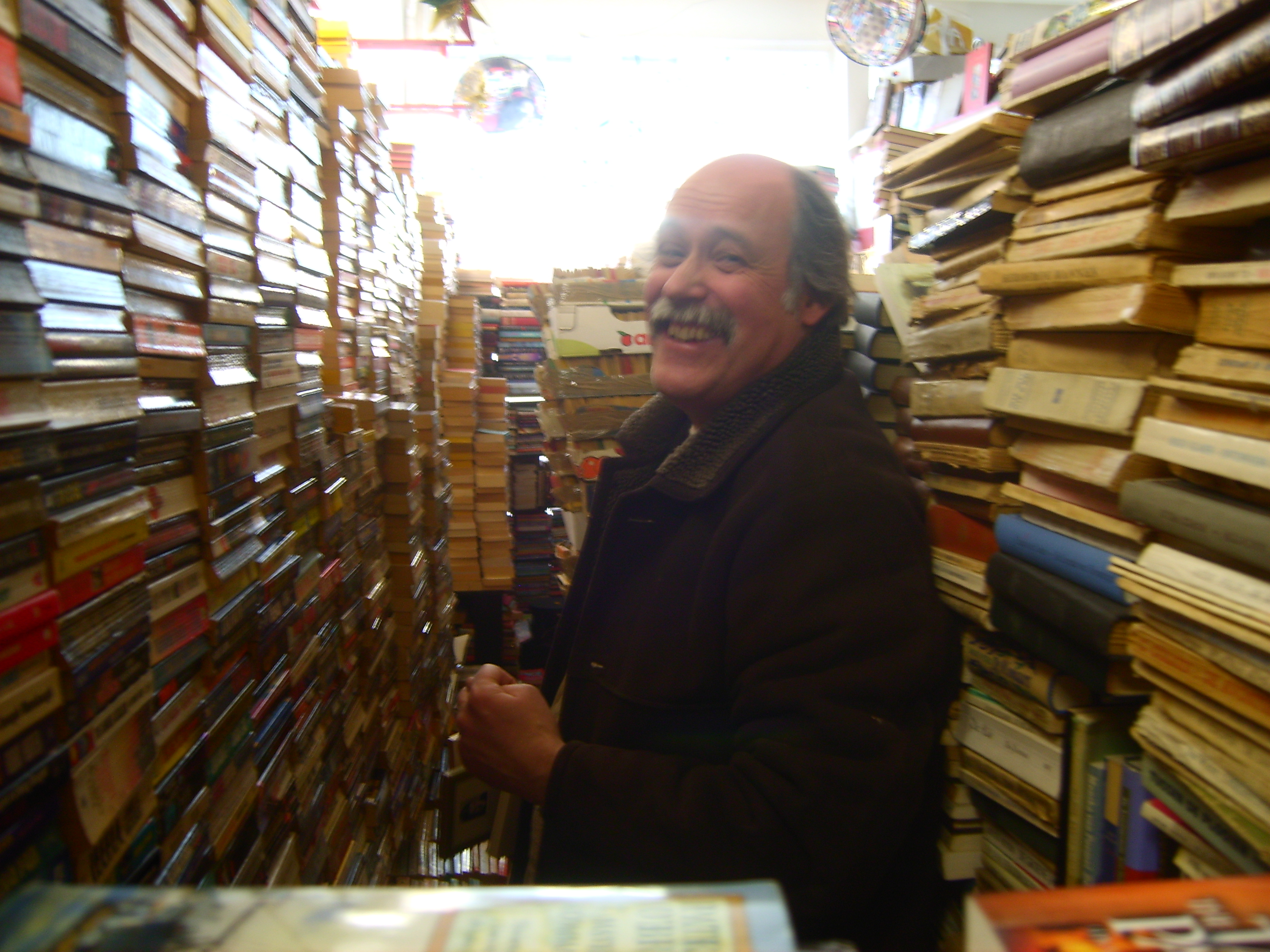 Tuf-Tuf book shop, Geuzenstraat 11, 2000 Antwerpen, België